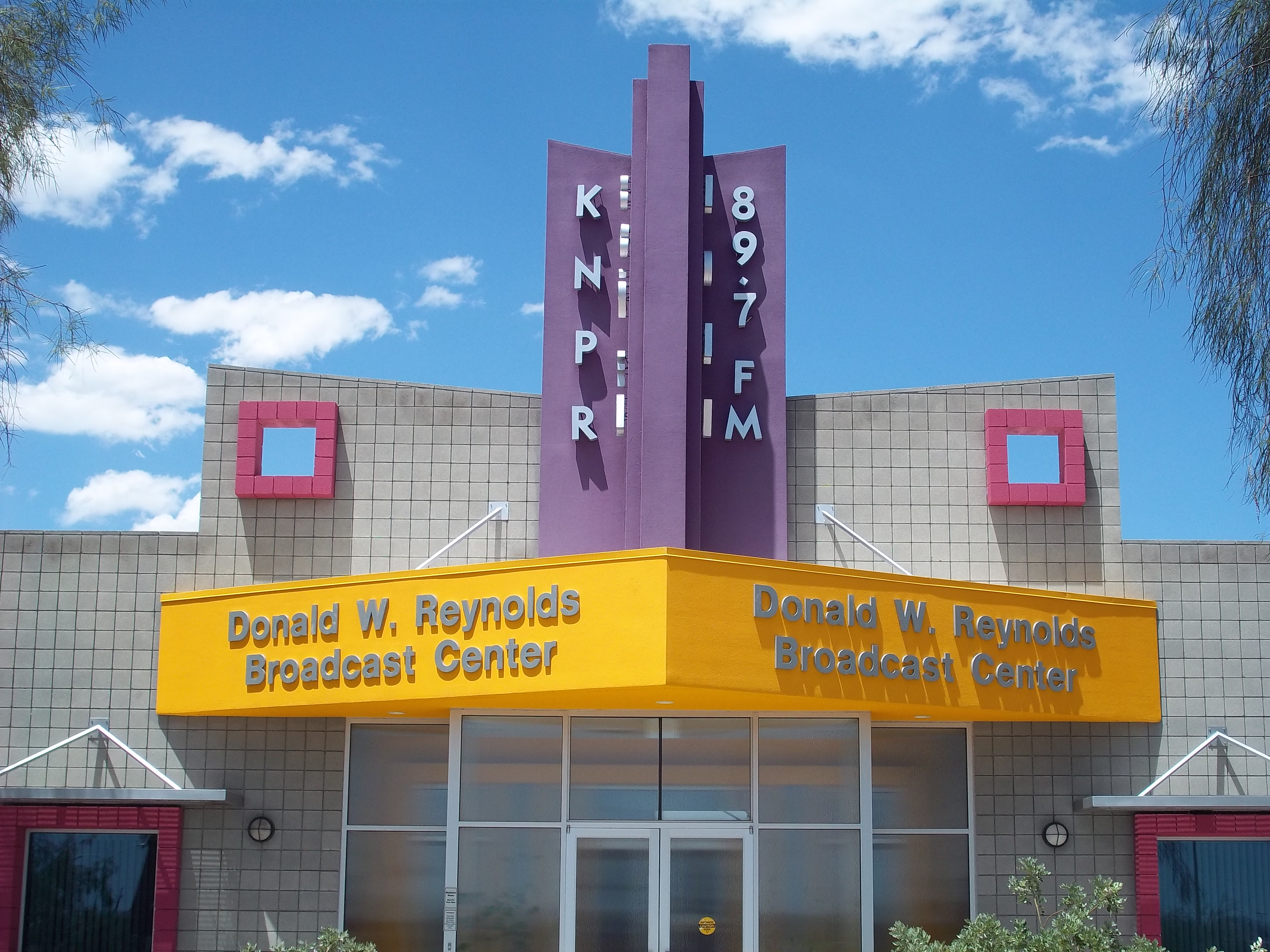 The main entrance to the Donald W. Reynolds Broadcast Center located adjacent to the C.S.N. Charleston Campus in Las Vegas, Nevada.